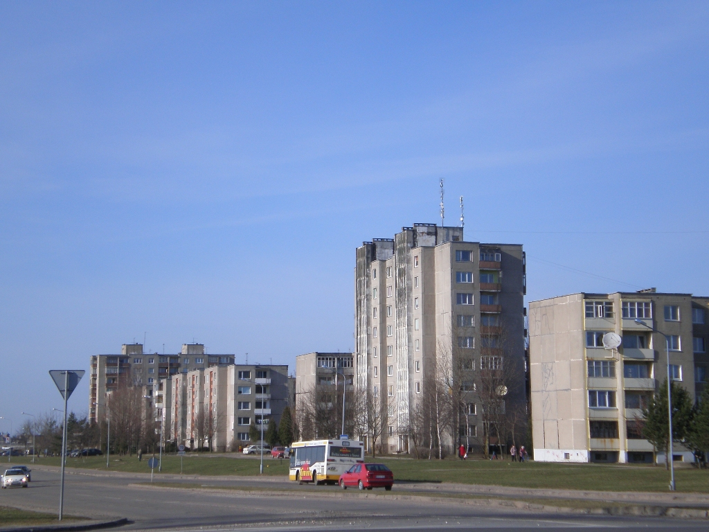 Respublika street in Kėdainiai city